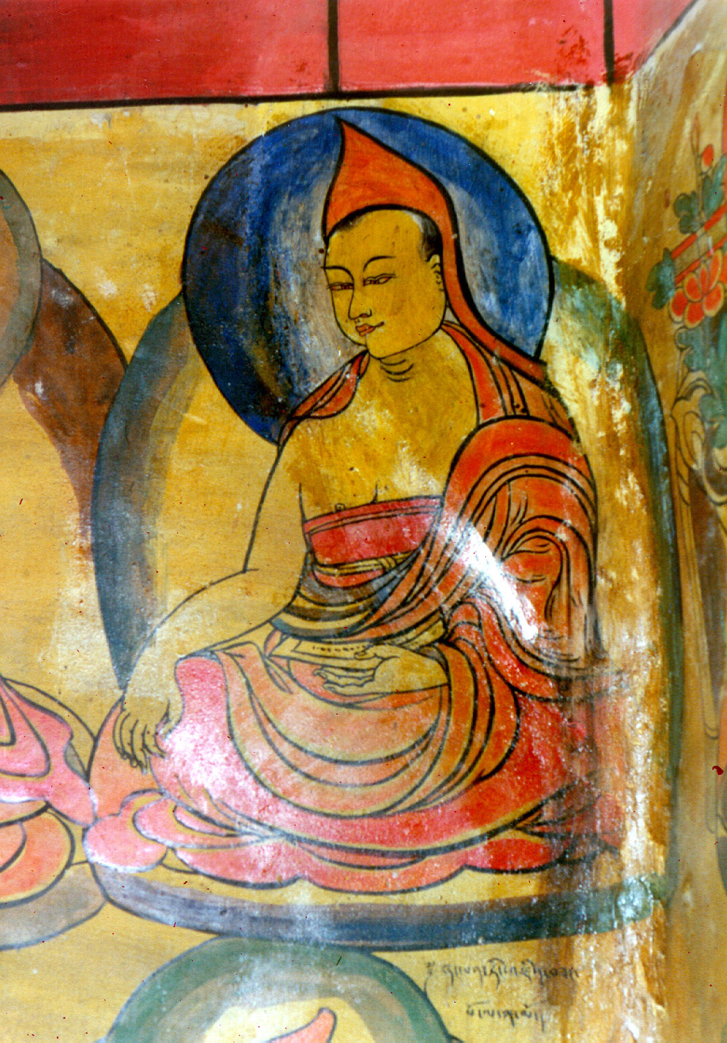 Nyangben Tingdzin Zangpo, 8th Century Tibetan monk